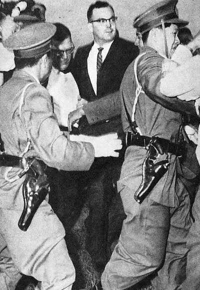 Hagerty Incident